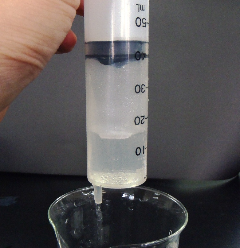 producing H2 with Mg and HCl